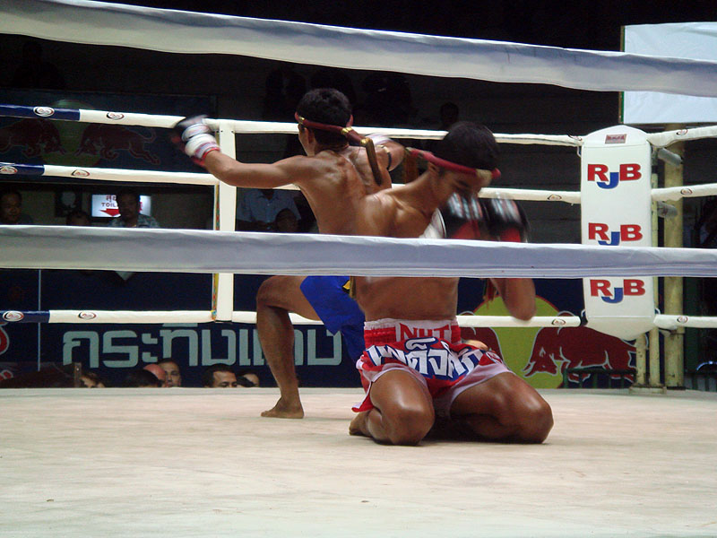 Thai Boxing at Ratchadamnoen Boxing Stadium